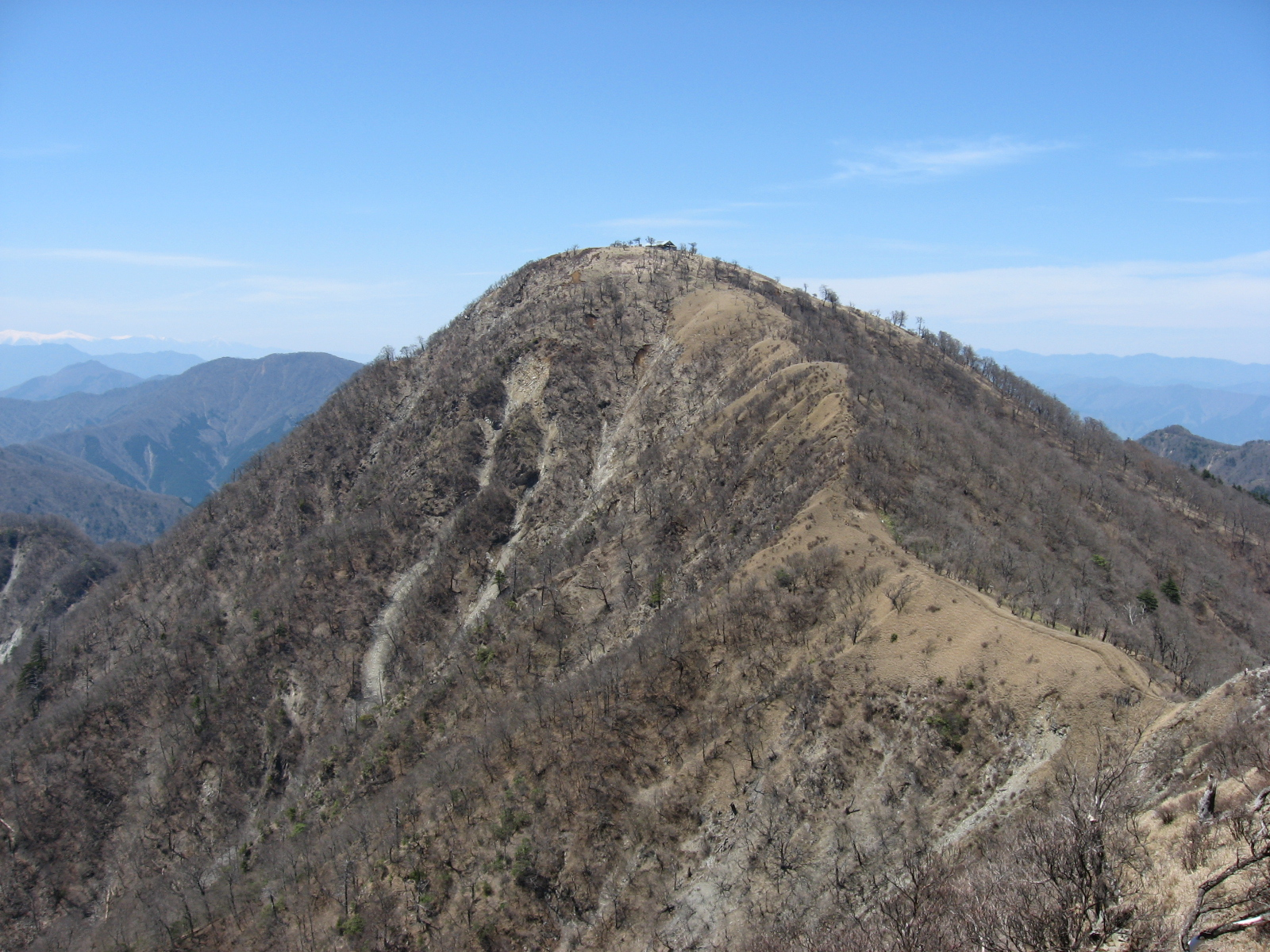 View of Mt. Hirugatake seen from the southeast. Taken from Mt. Onigaiwanoatama.